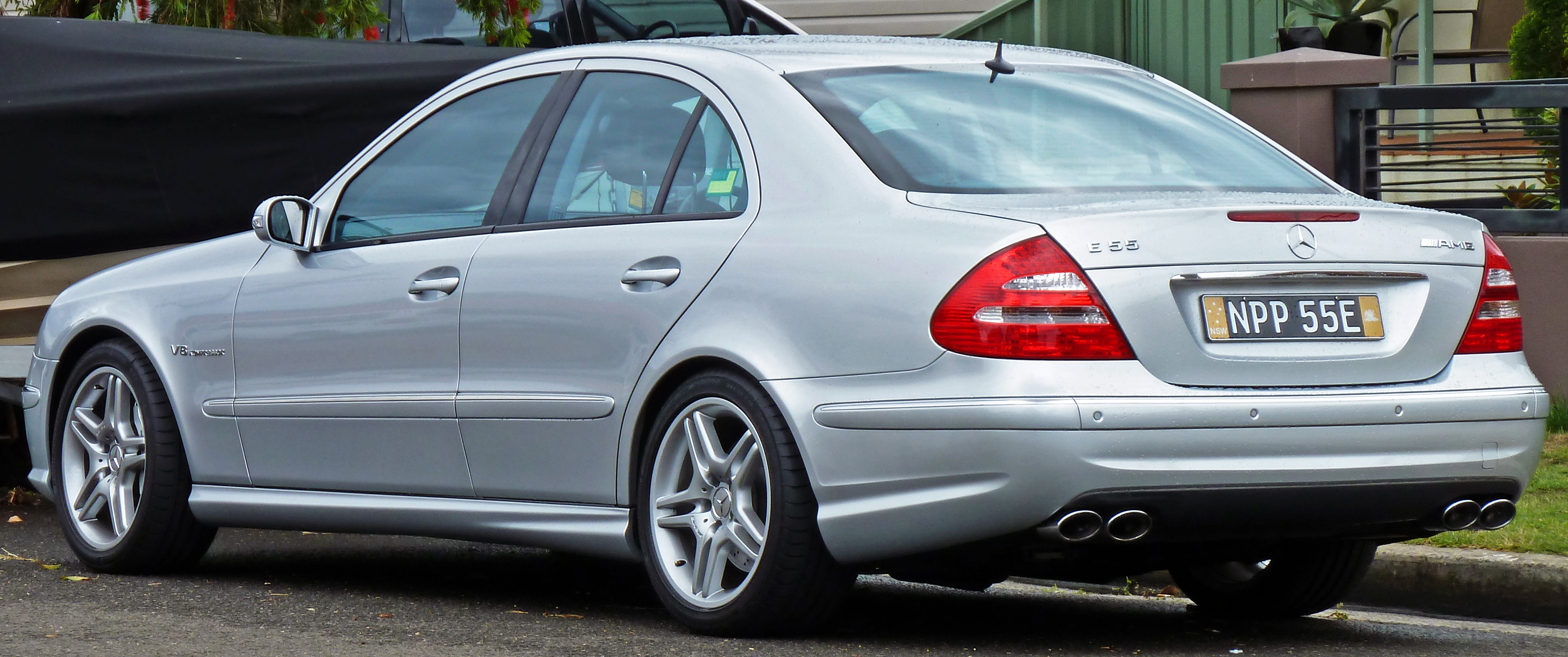 2002–2006 Mercedes-Benz E 55 AMG (W211) sedan. Photographed in Sans Souci, New South Wales, Australia.